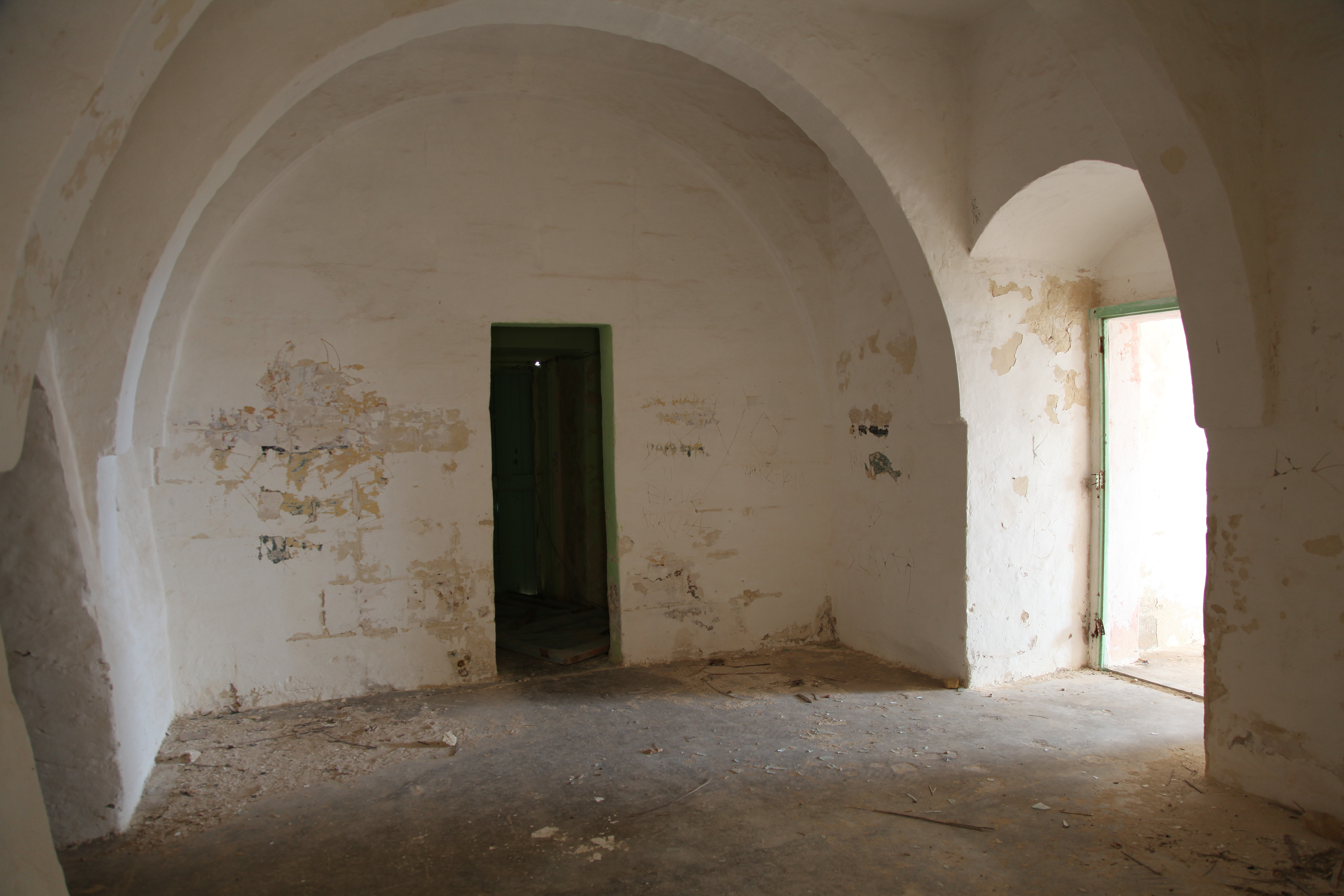 Armier Tower at Triq ir-Ramla tat-Torri l-Abjad in Mellieħa, Malta